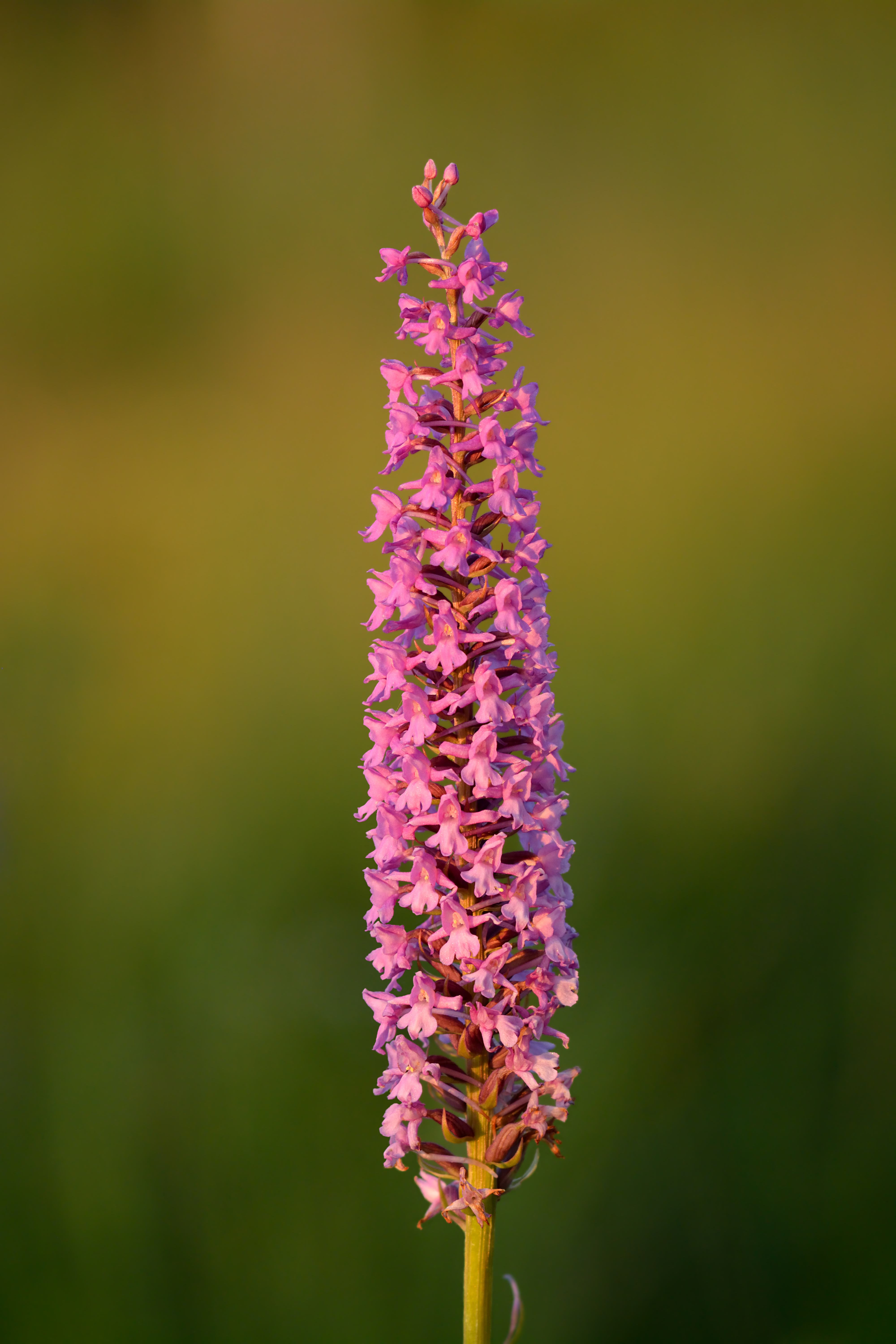 Marsh fragrant-orchid